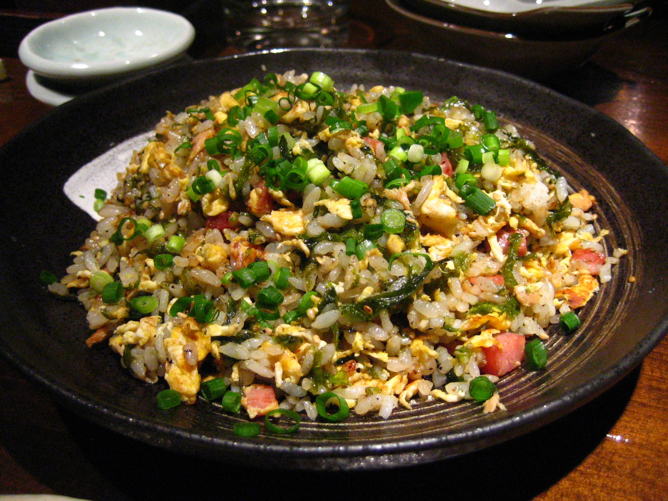 at Naby to Kamado, an Okinawan cuisine restaurant in Naha, Okinawa